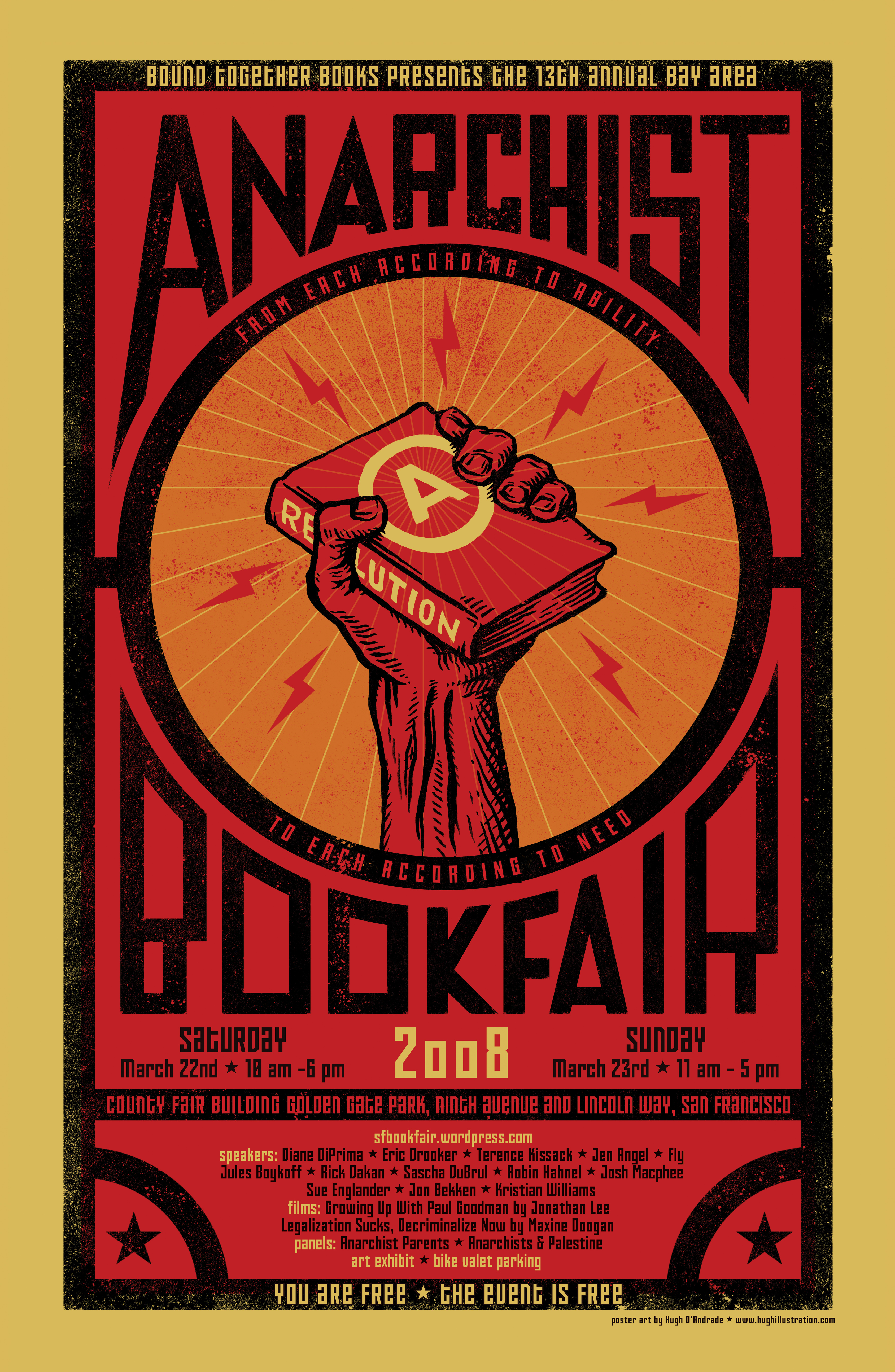 Poster of the San Francisco Bay Area Anarchist Bookfair, which took palce from March 22-23 2008.